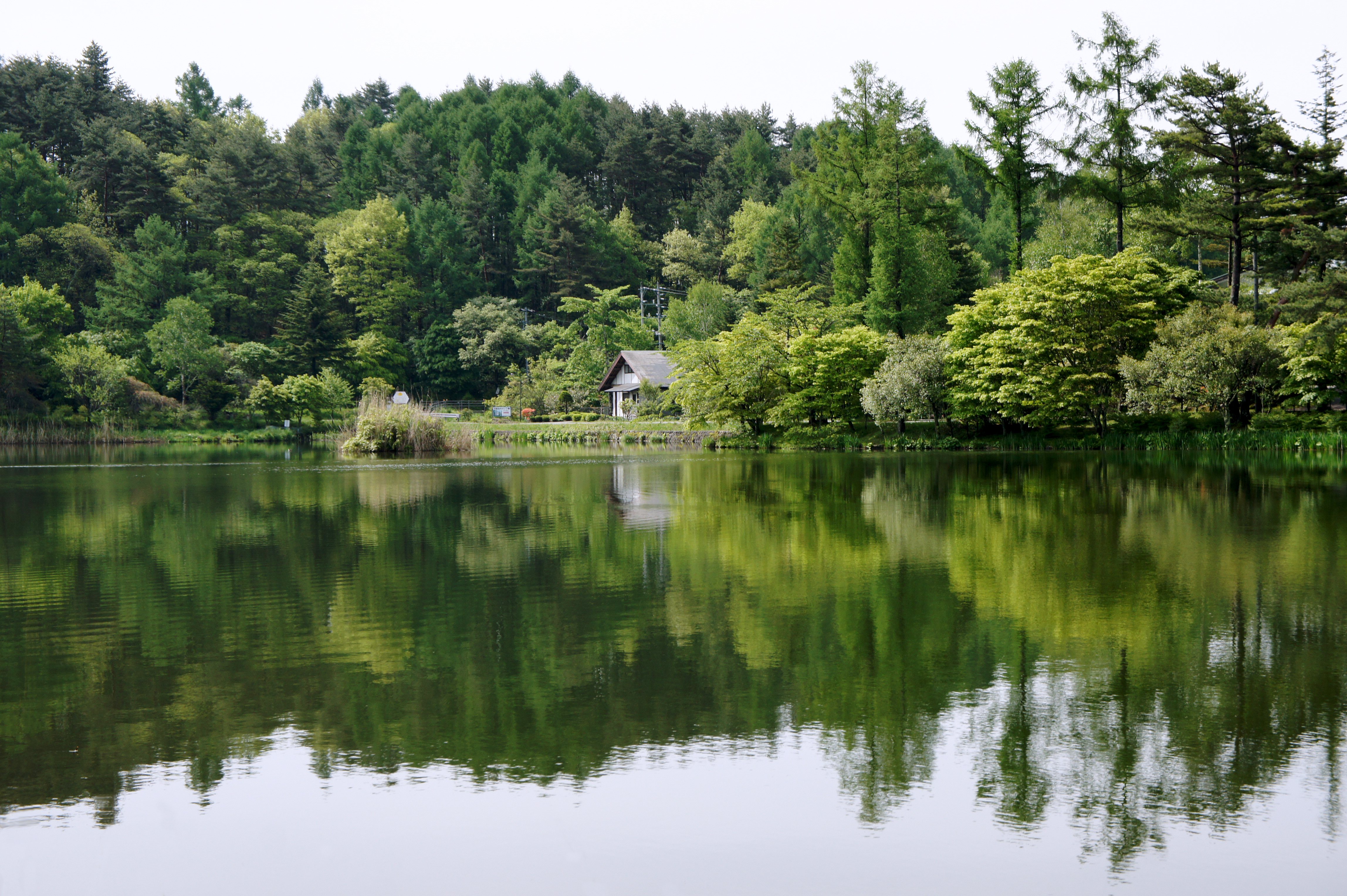 Lake Tateshina in Chino, Nagano prefecture, Japan